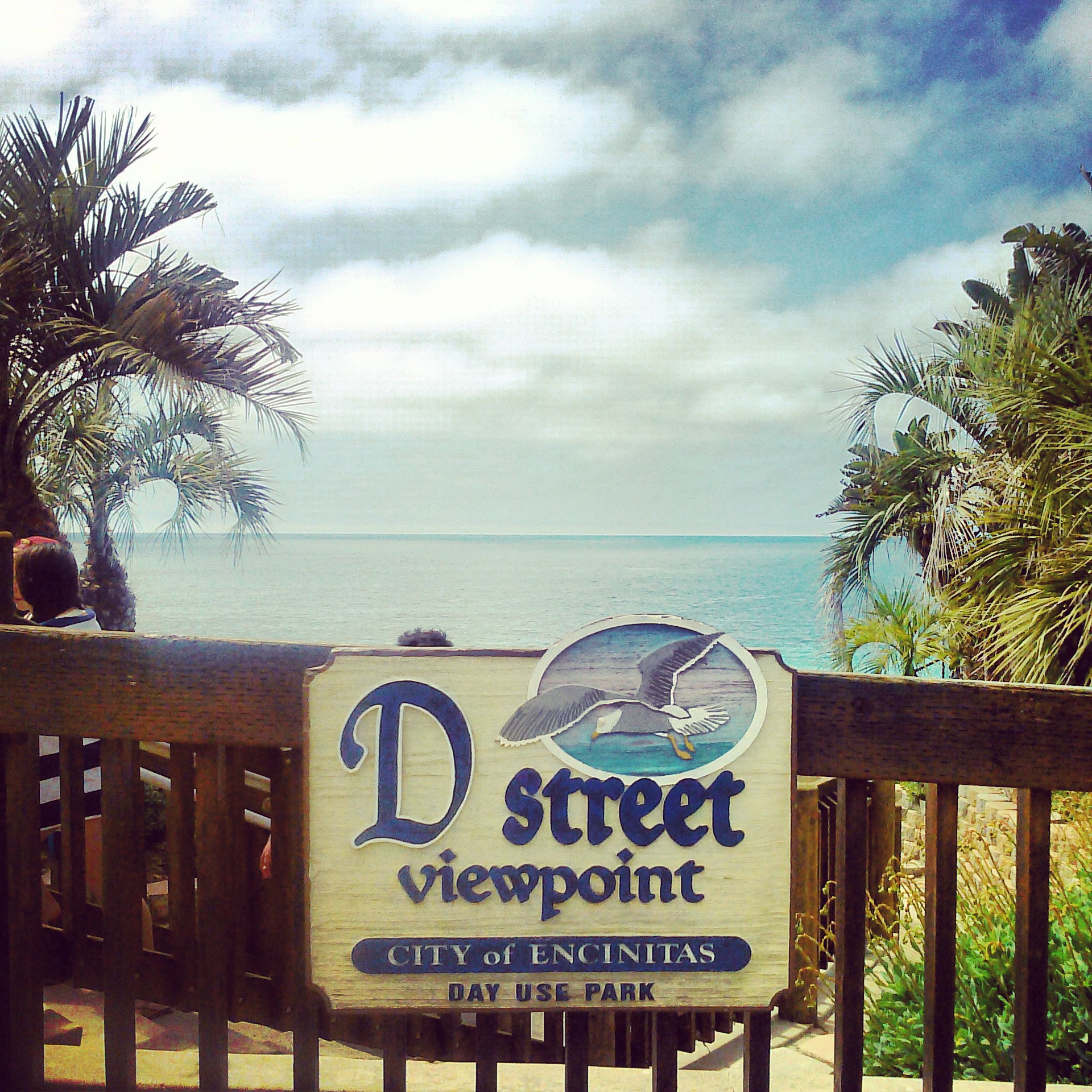 This picture was taken in Encinitas, California located on D Street. This is a sign which is a locator for the beach overlook and stairs down to the beach.